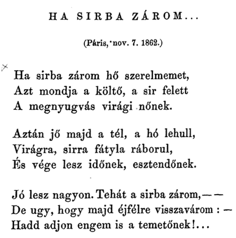 Poem of Zilahy Károly